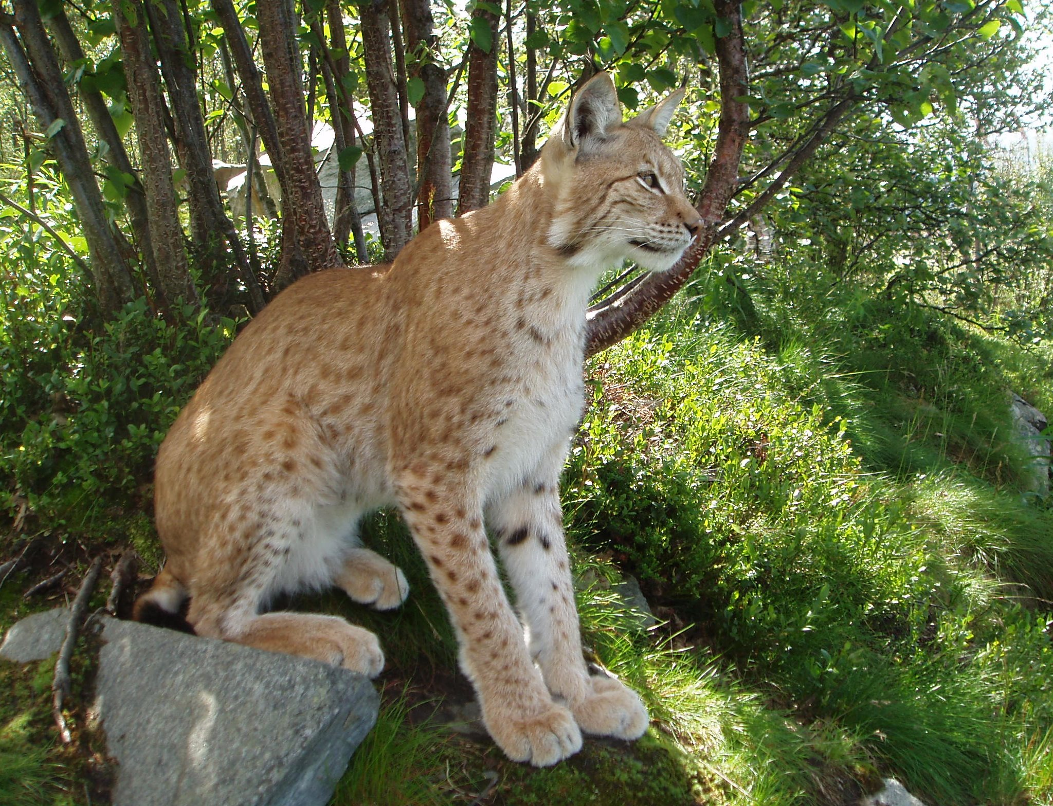 Bilde av gaupen på Langedrag Naturpark (the Eurasian Lynx at Langedrag Naturpark in Norway)